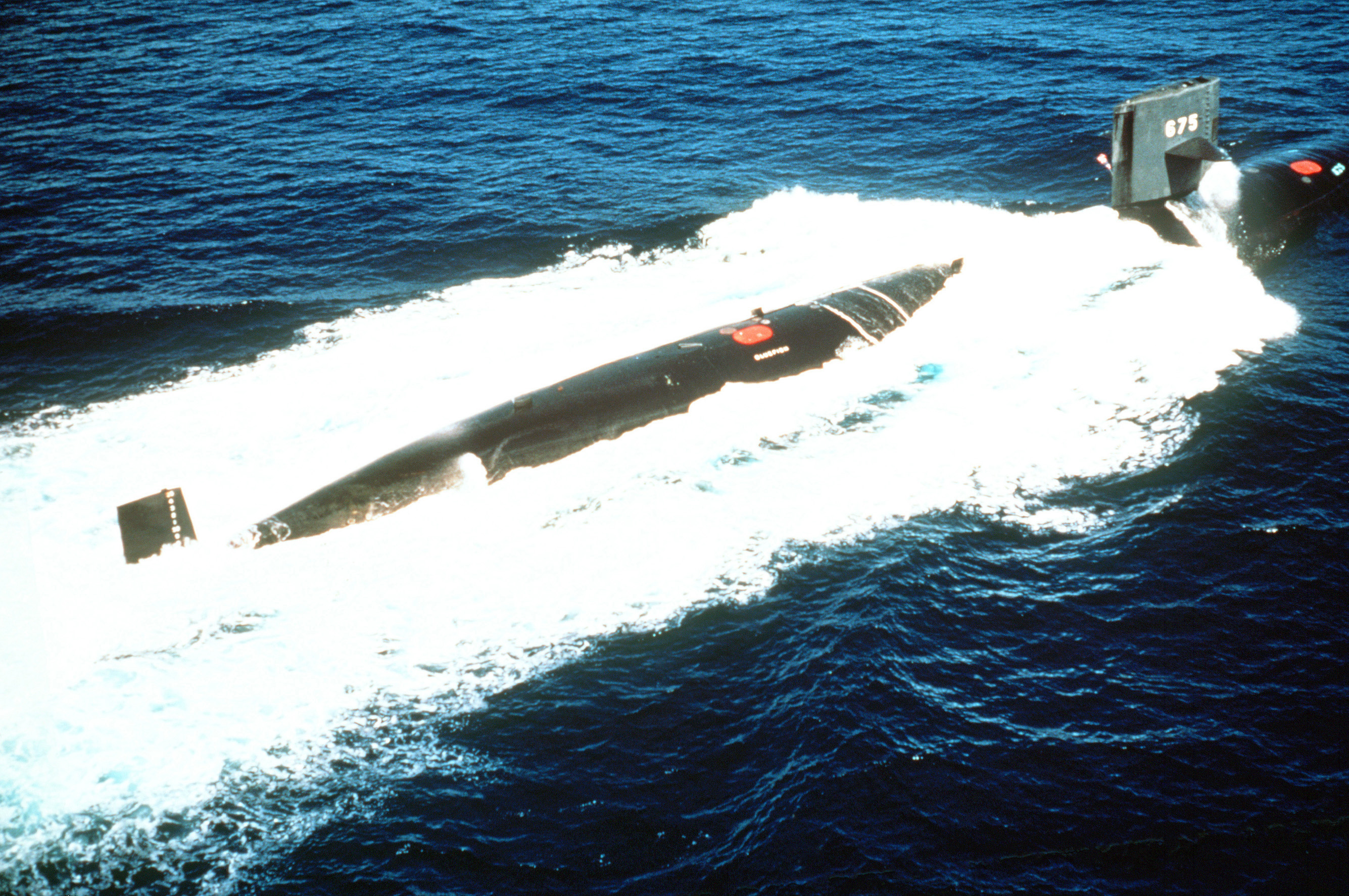 A starboard quarter view of the nuclear-powered attack submarine USS BLUEFISH (SSN-675) underway off Puerto Rico.